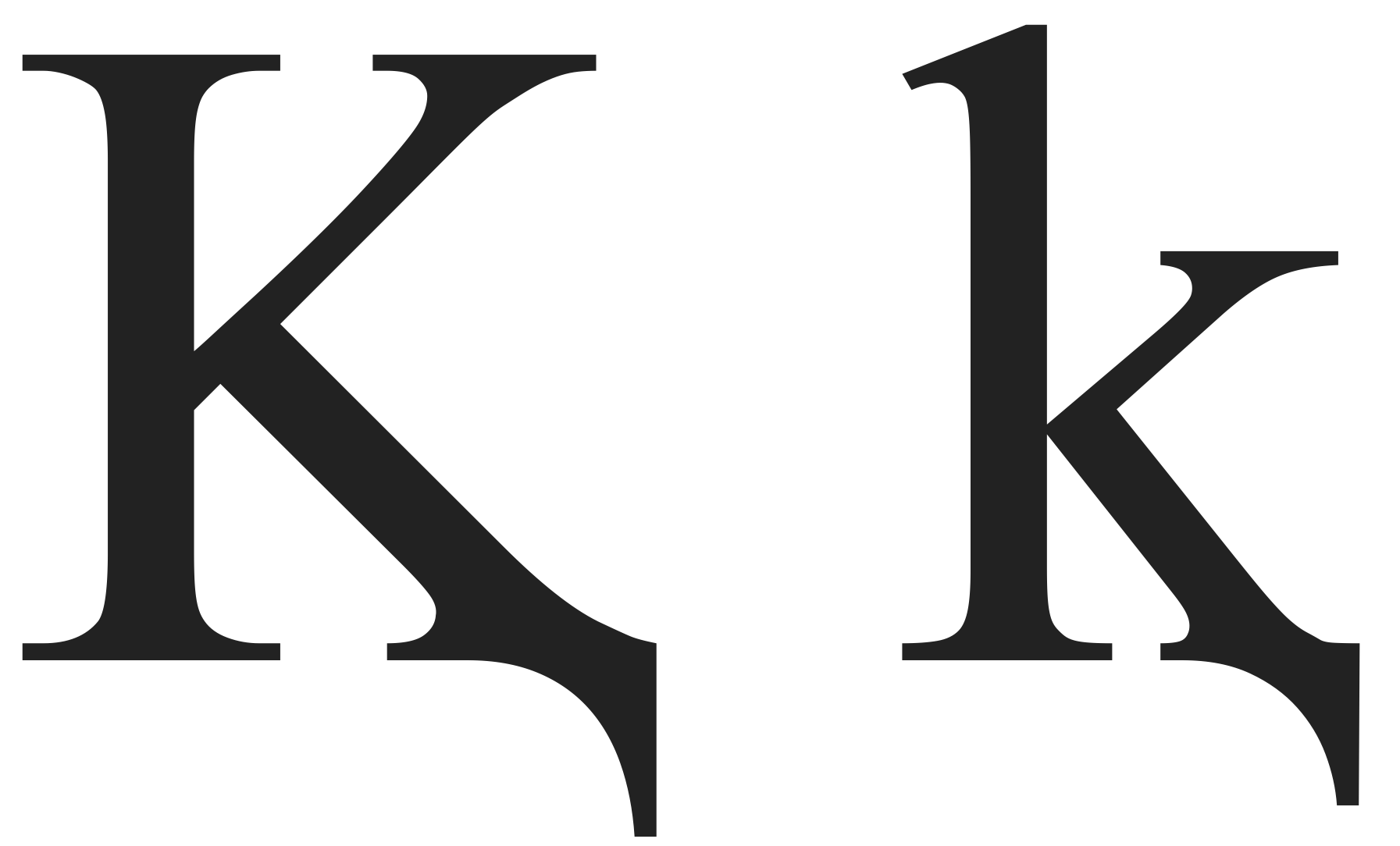 K with descender